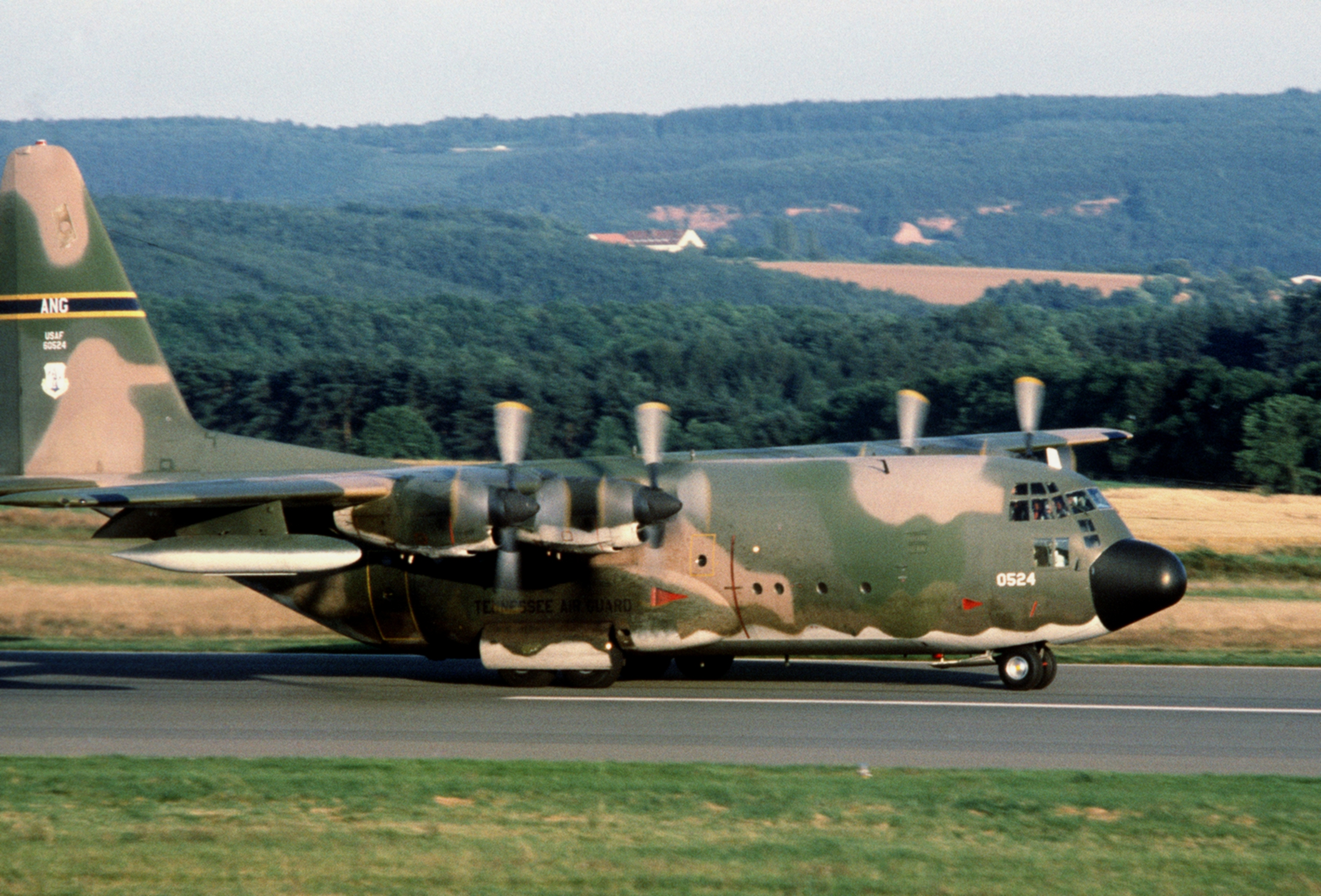 A U.S. Air Force Lockheed C-130E-LM Hercules (s/n 64-0524) from the 105th Tactical Airlift Squadron, 118th Tactical Airlift Wing, Tennessee Air National Guard.